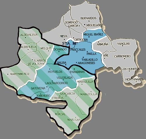 Map of municipality of Santa Maria la Real de Nieva, Segovia, Spain.